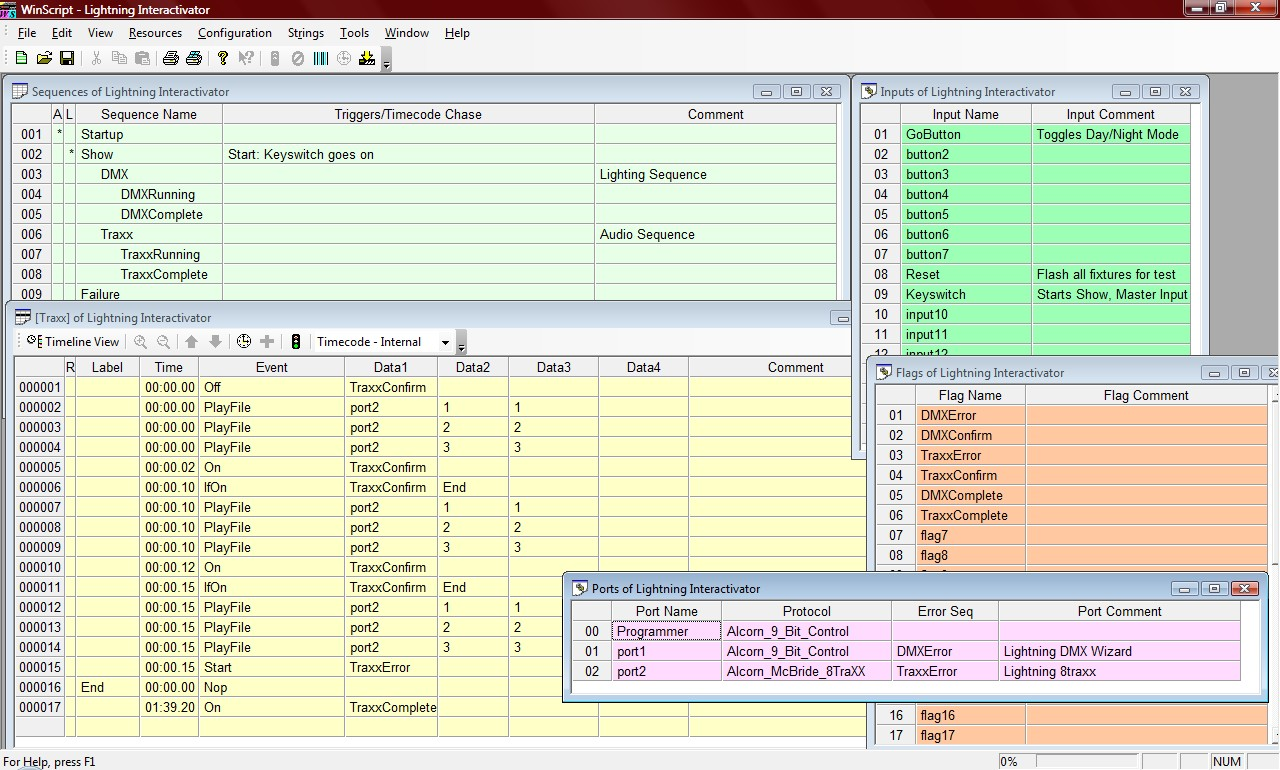 Screen capture of Windows based Show Control software.